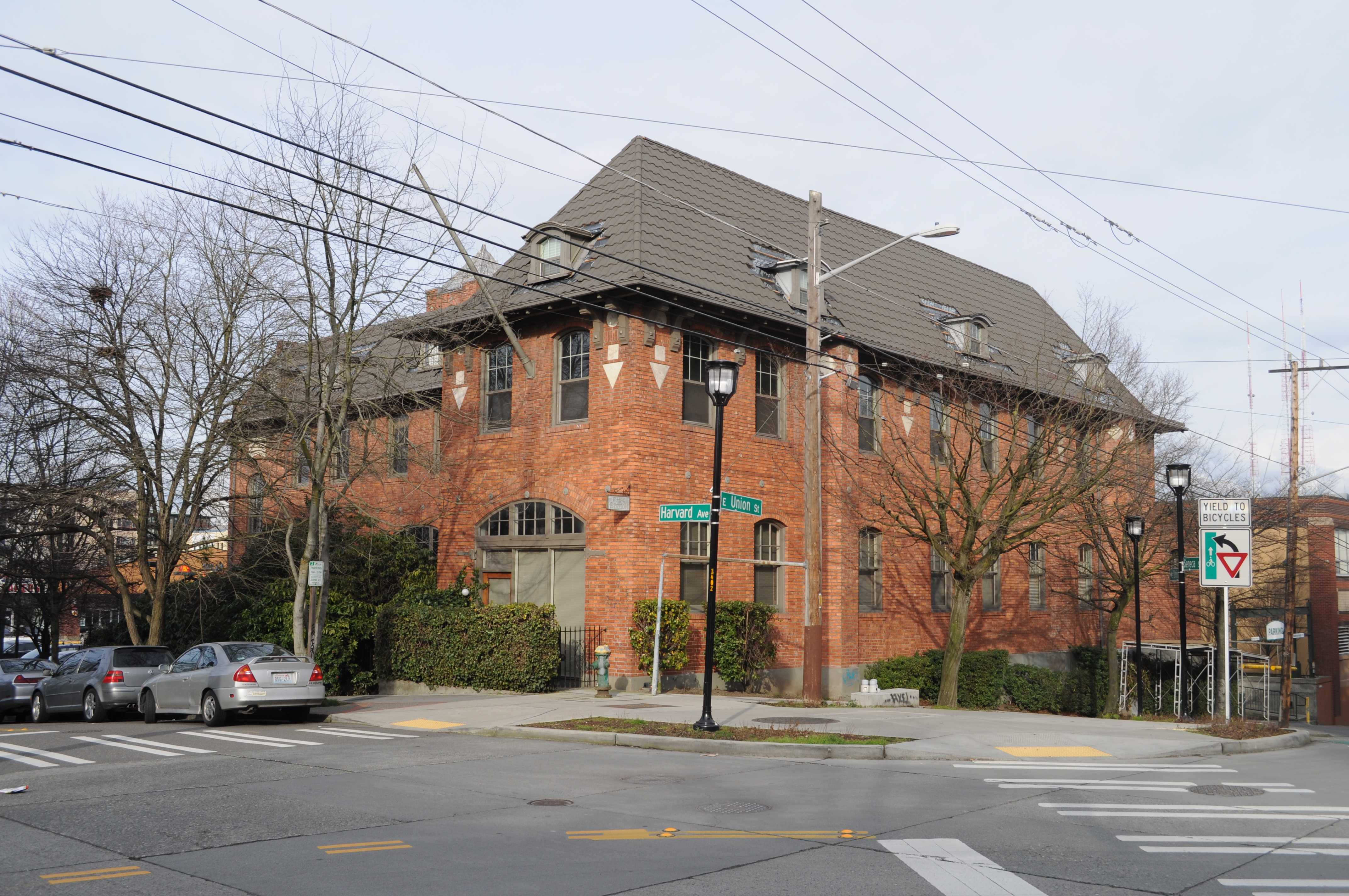 The former Fire Station No. 25, Seattle, Washington (roughly on the border between Capitol Hill and First Hill) now converted to housing. Listed on the National Register of Historic Places.